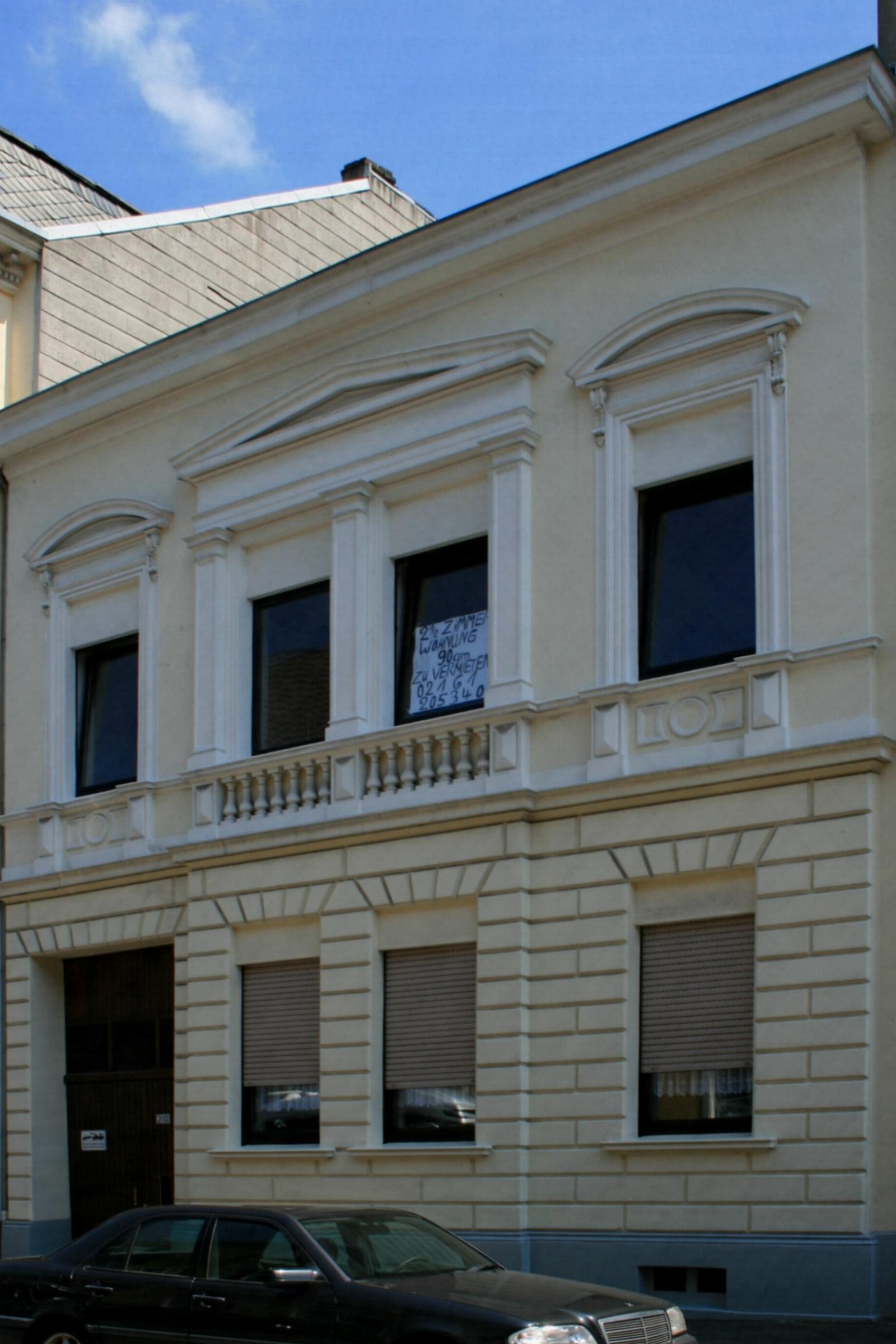 Cultural heritage monument No. R 074 in Mönchengladbach